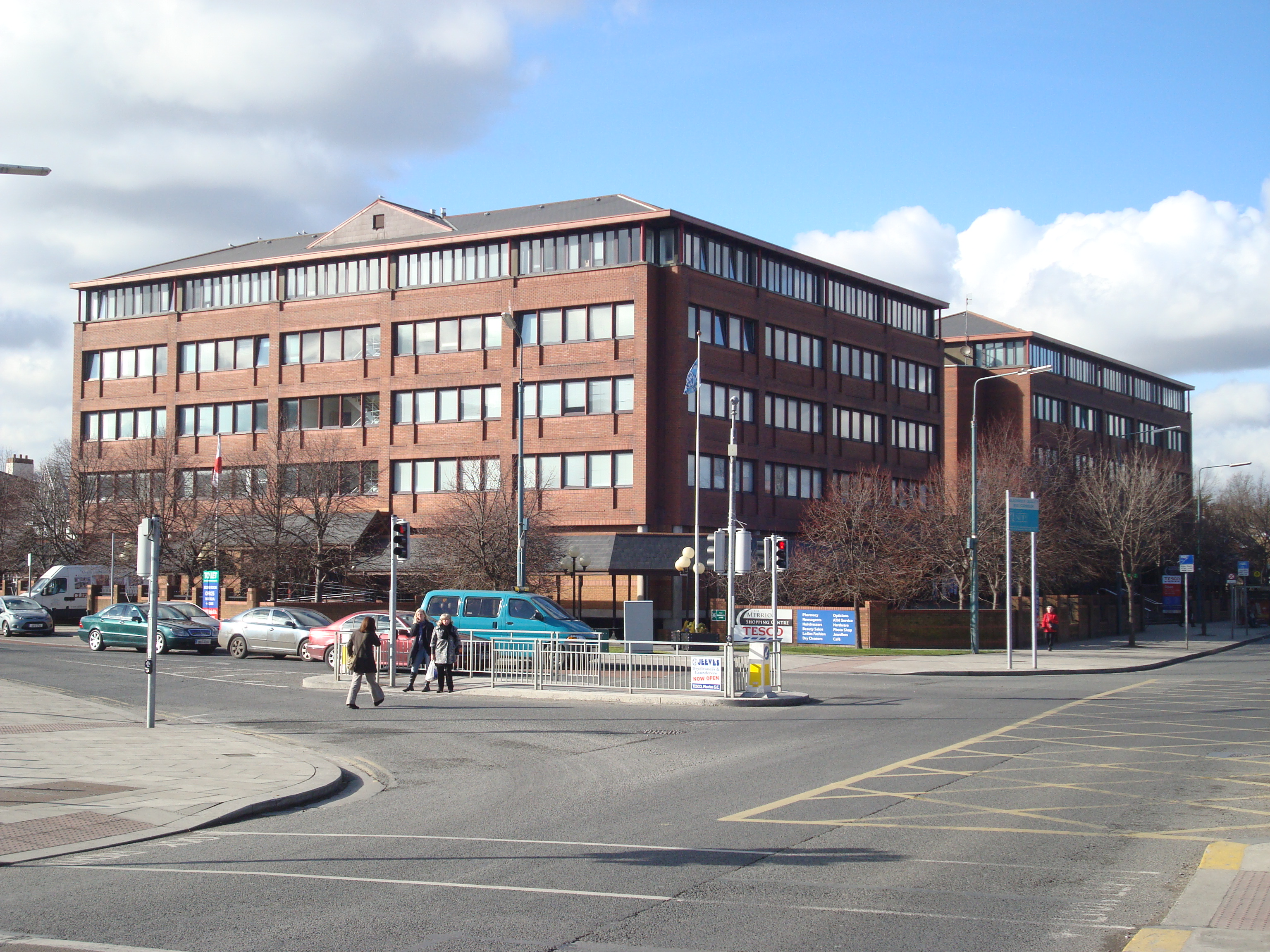 The Merrion Centre which contains a shopping centre with Tesco as its anchor tenant. It is also offices where AIG are based. The Embassy of Japan to Ireland is located in the same building.